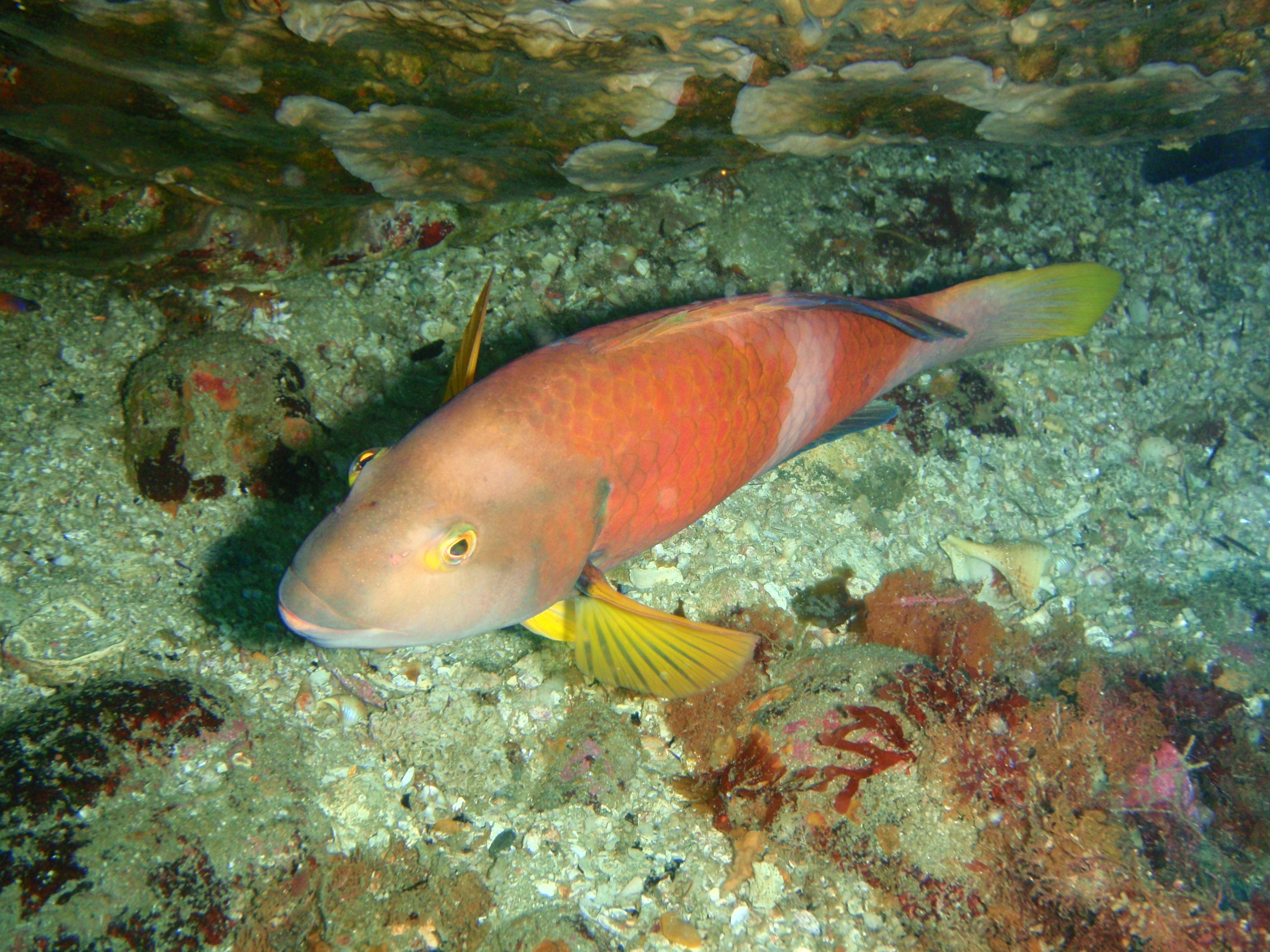 Blue-throated wrasse Notolabrus tetricus at Trap Reef, Bicheno, Tasmania